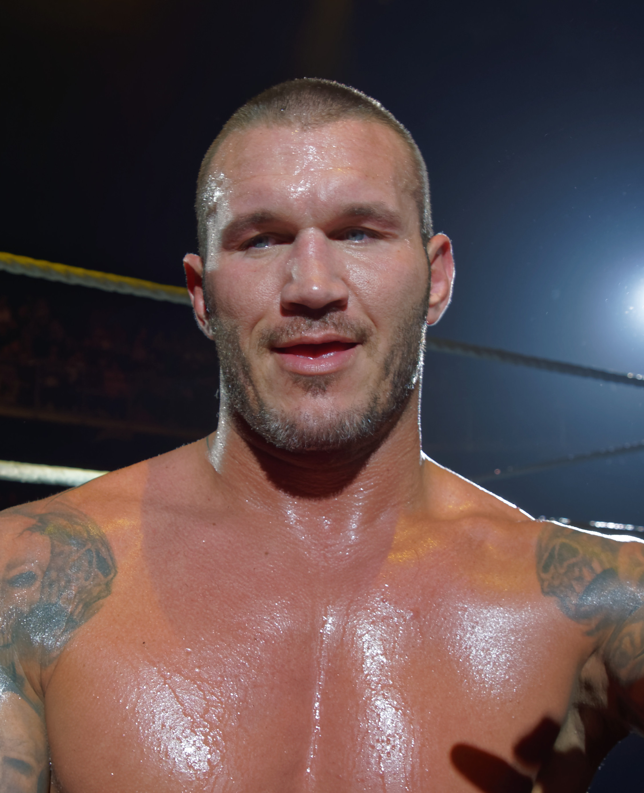 Randy Orton at a WWE Live Event